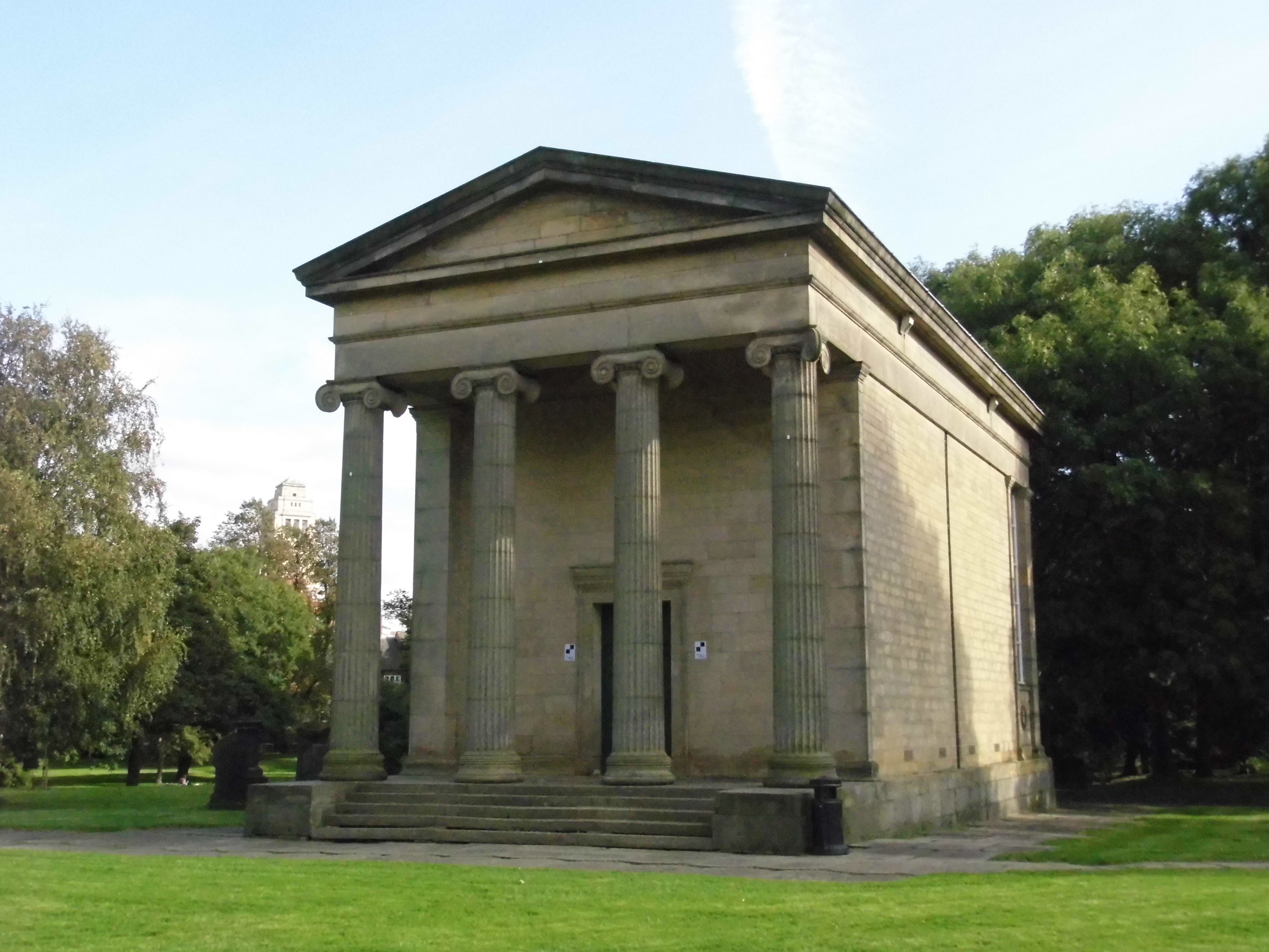 Former Cemetery Chapel And Statue Of Michael Sadler Wikidata has entry Q26547717 with data related to this item.